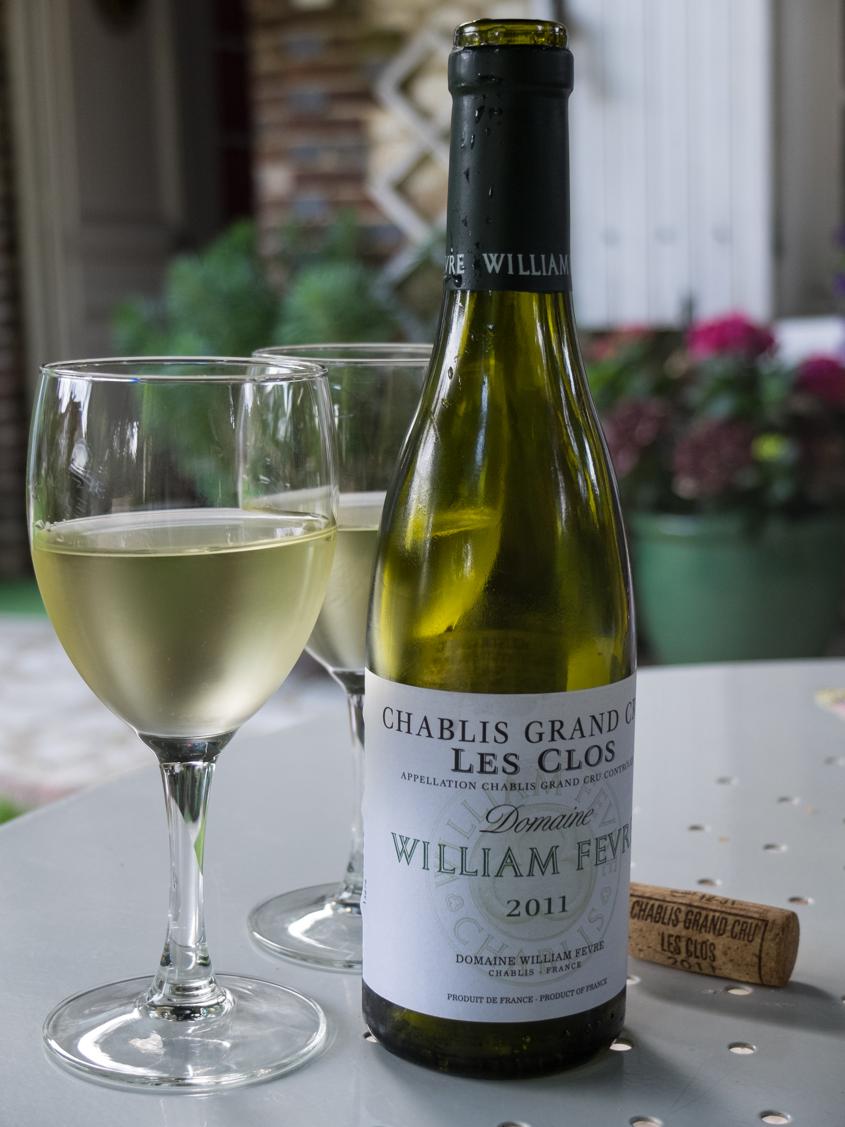 2011 Chablis Grand Crus Les Clos from Domaine William Fevre